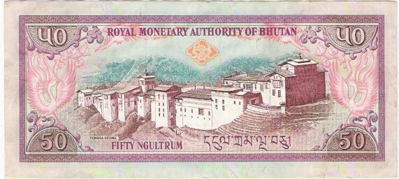 From Bhutan.